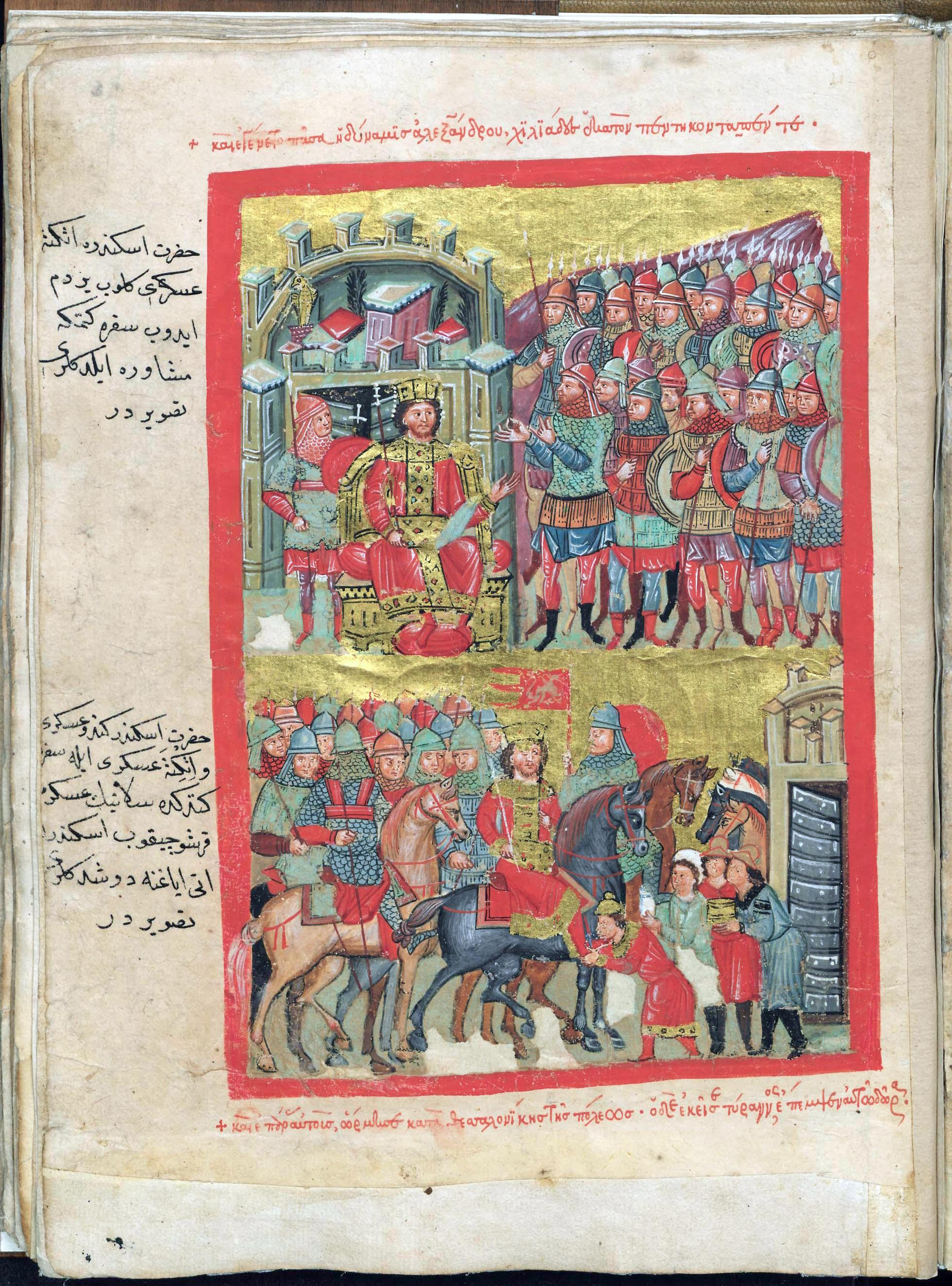 A fourteenth-century miniature manuscript depicting scenes from the life of Alexander the Great. In this illustration Alexander the Great and his troops arrive in Thessaly and receive gifts from a tyrant. The scene is depicted entirely in the fashion of the late Byzantine period (1204-1453). “Alexander Romance” in S. Giorgio dei Greci in Venice.